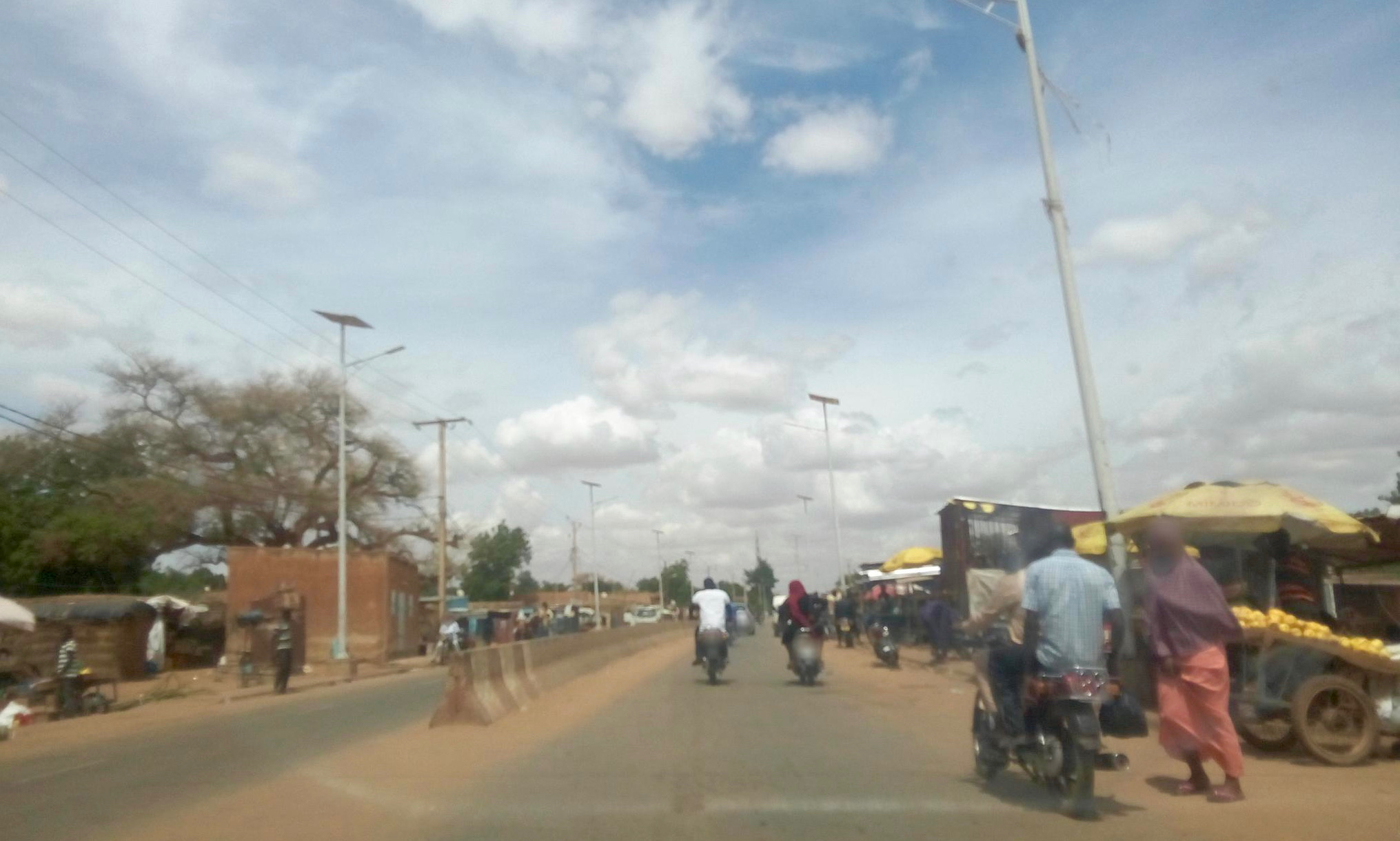 Boulevard des Ambassades in Goudel, Niamey.